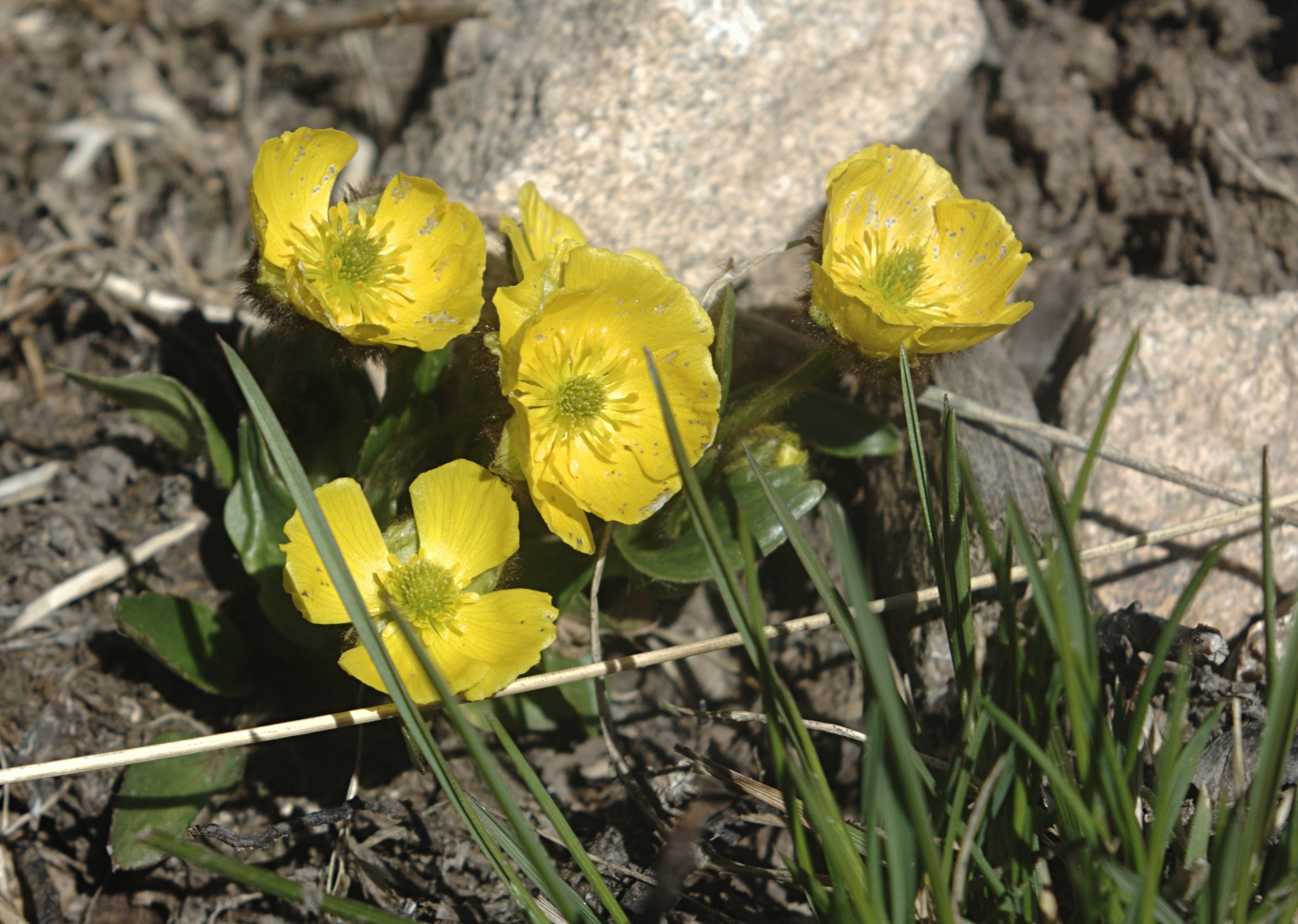 Ranunculus macauleyi, Macauley's alpine buttercup, near Tesuque Peak, Santa Fe National Forest, New Mexico. Thanks to Sciadopitys and John Bregar for ID confirmation.